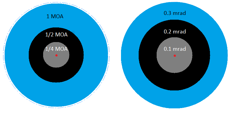 Comparison of milliradian (mrad) and arcminute (MOA) target sizes.